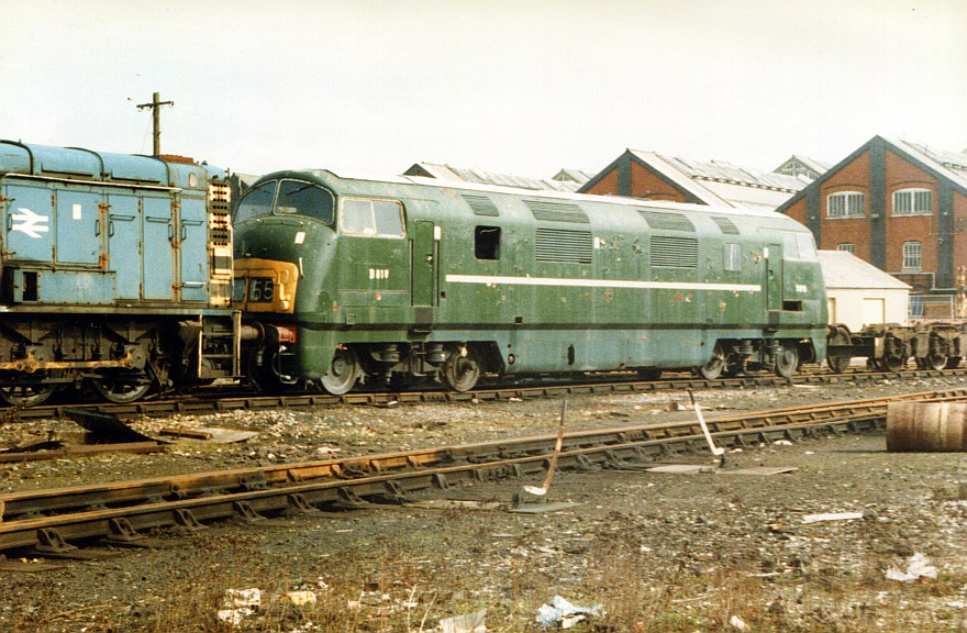 D818 Glory (and an unidentified 08) at Swindon Works early in 1985, shortly before its destruction. Own work. Scanned from print.